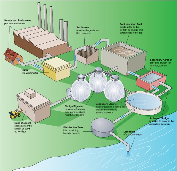 Steps in a typical wastewater treatment process.